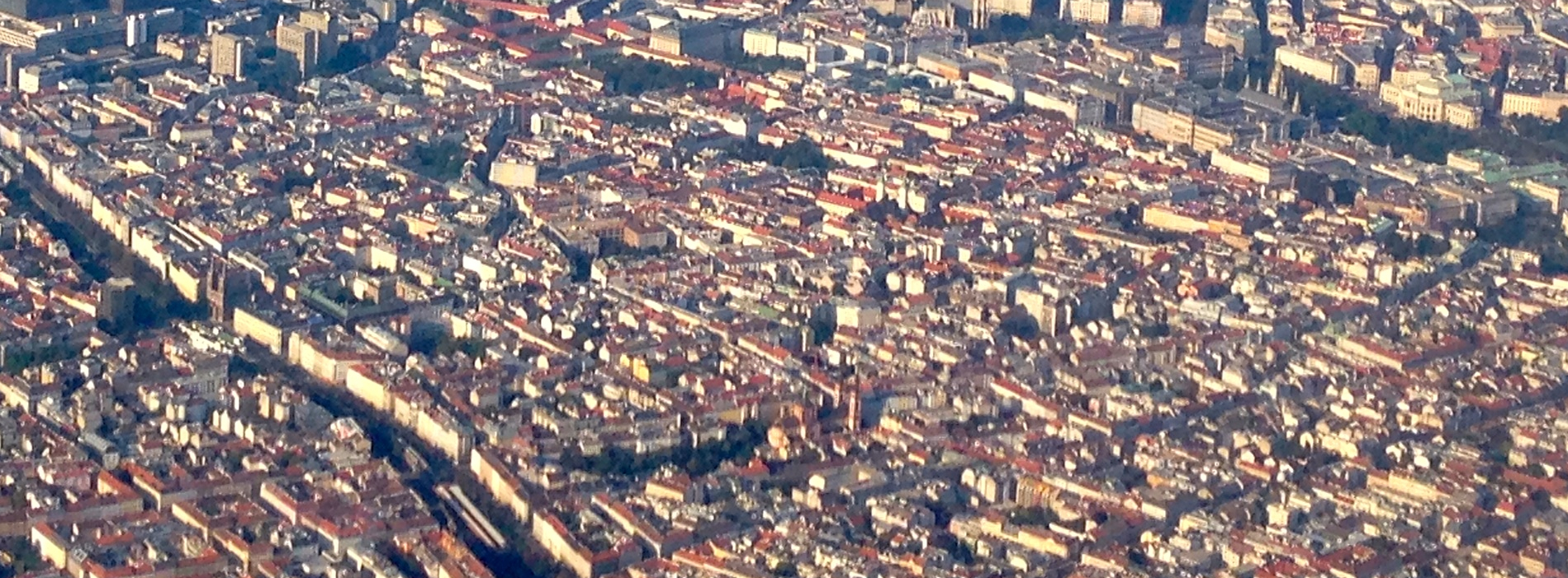 Landing in Vienna on August 2, 2014. Window seat on the pilot’s side. Approach takes you over the city of Vienna and, it was a beautiful day.